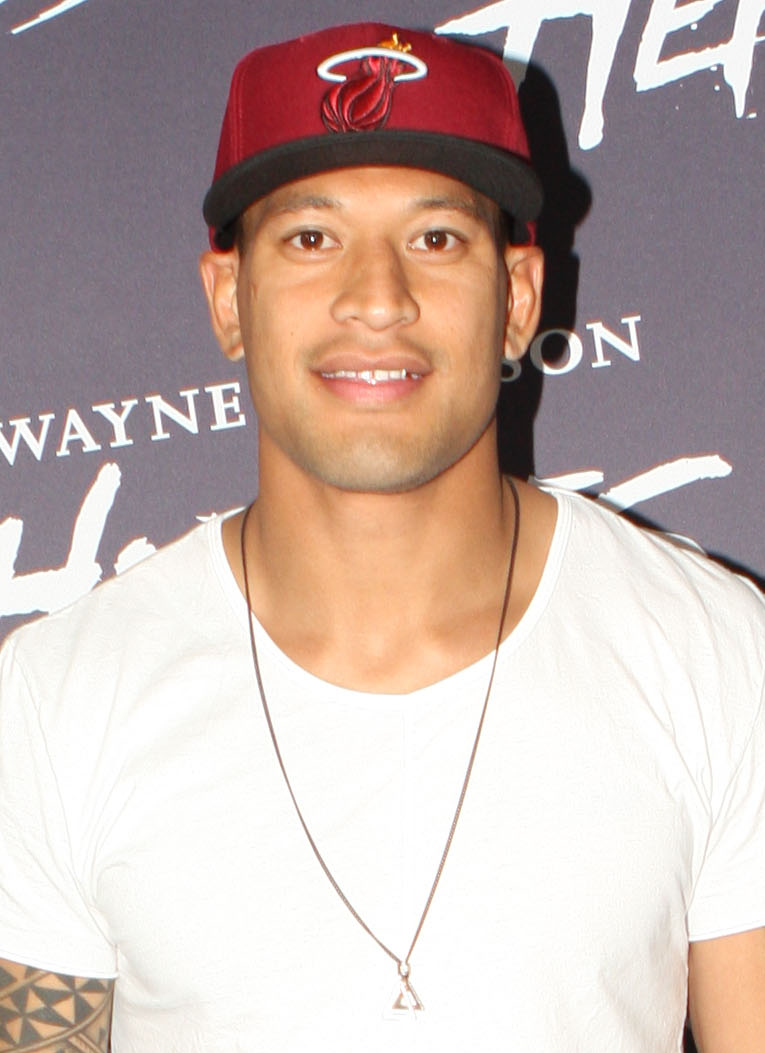 Hercules Premiere, Event Cinemas Sydney Australia